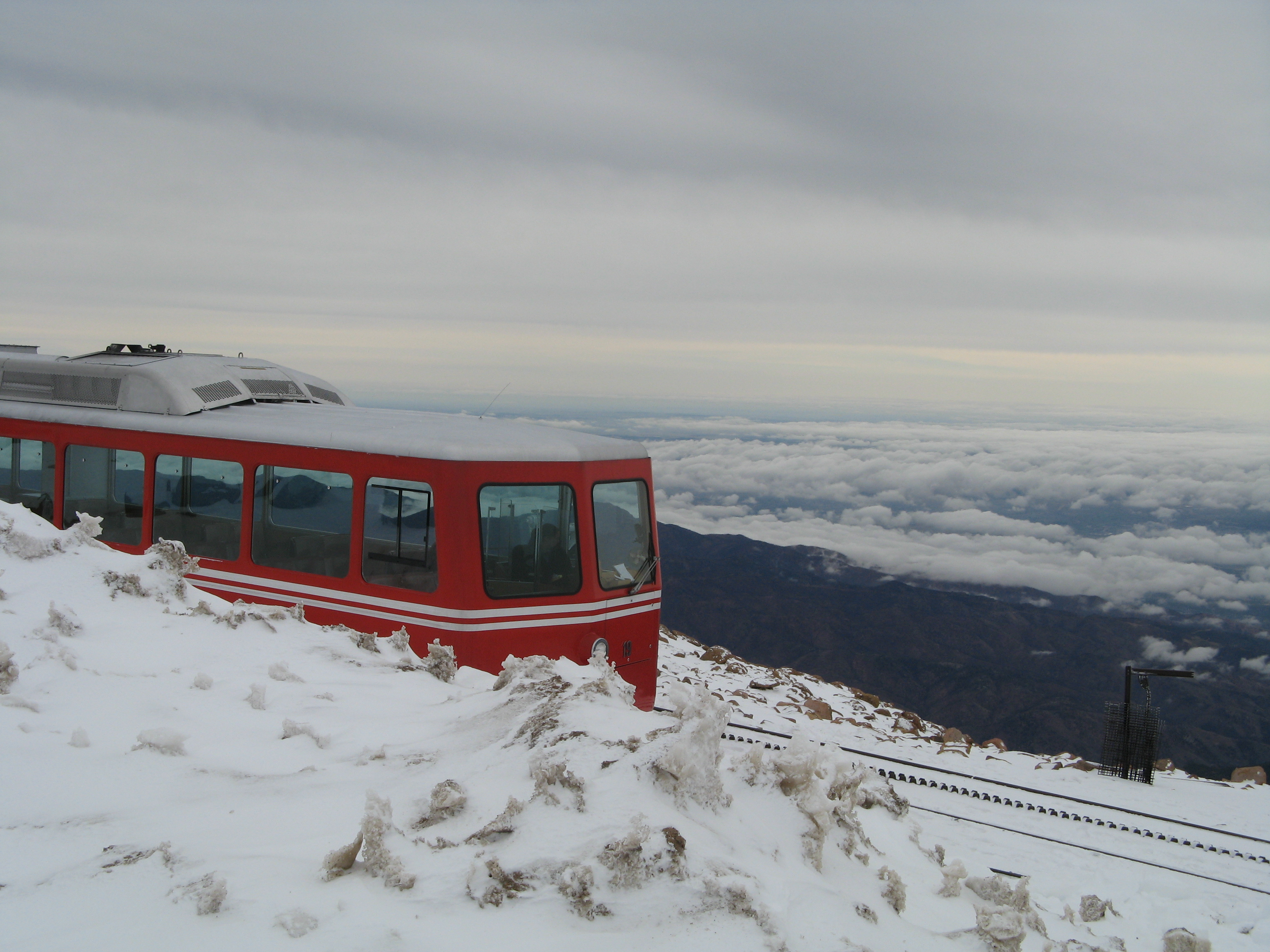 Pikes Peak Cog Railway parked on the summit. Clouds can be seen below in backdrop.